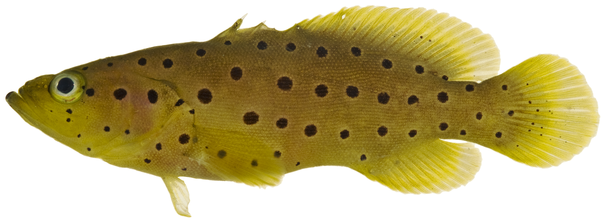 Rypticus subbifrenatus Gill, 1861—spotted soapfish, 54.0 mm SL. Photo by JT Williams.